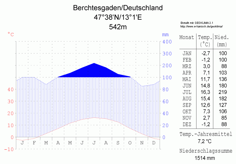 climate chart in the format by Walther and Lieth, metric, °Celsisus and millimeters, made with Geoklima 2.1